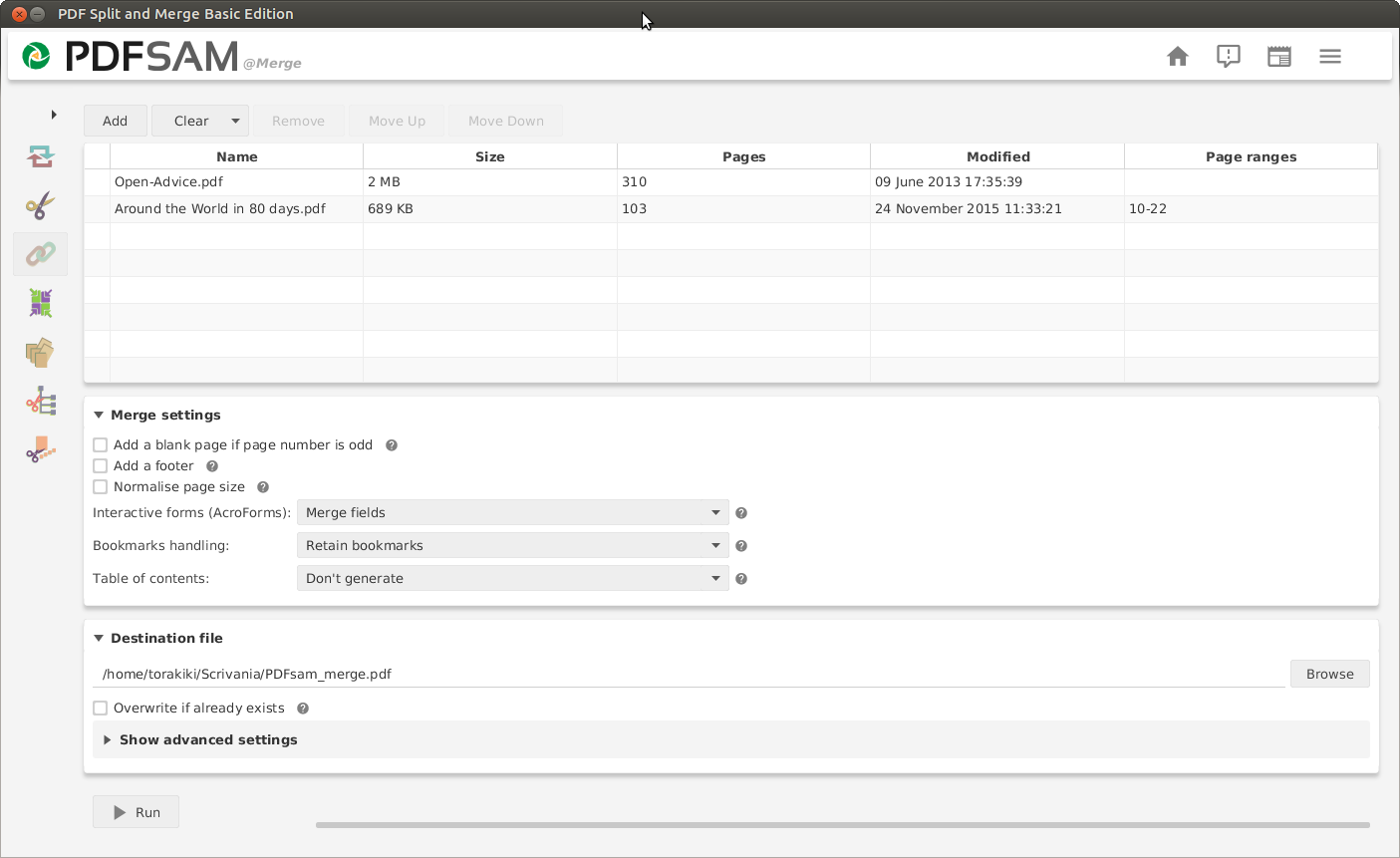 PDFsam Basic merge module screenshot on Ubuntu Mate